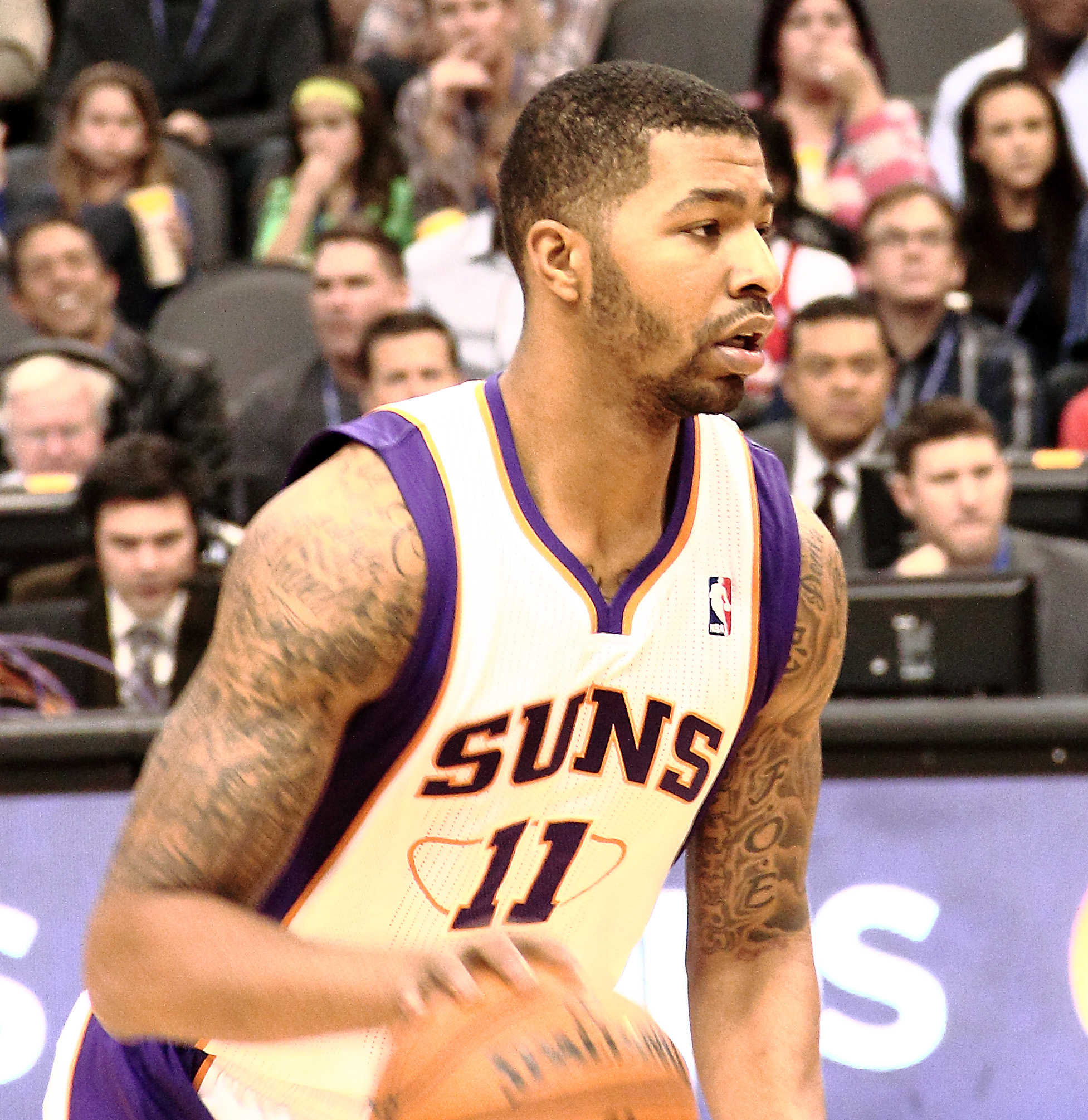 Markieff Morris, 12/23/12